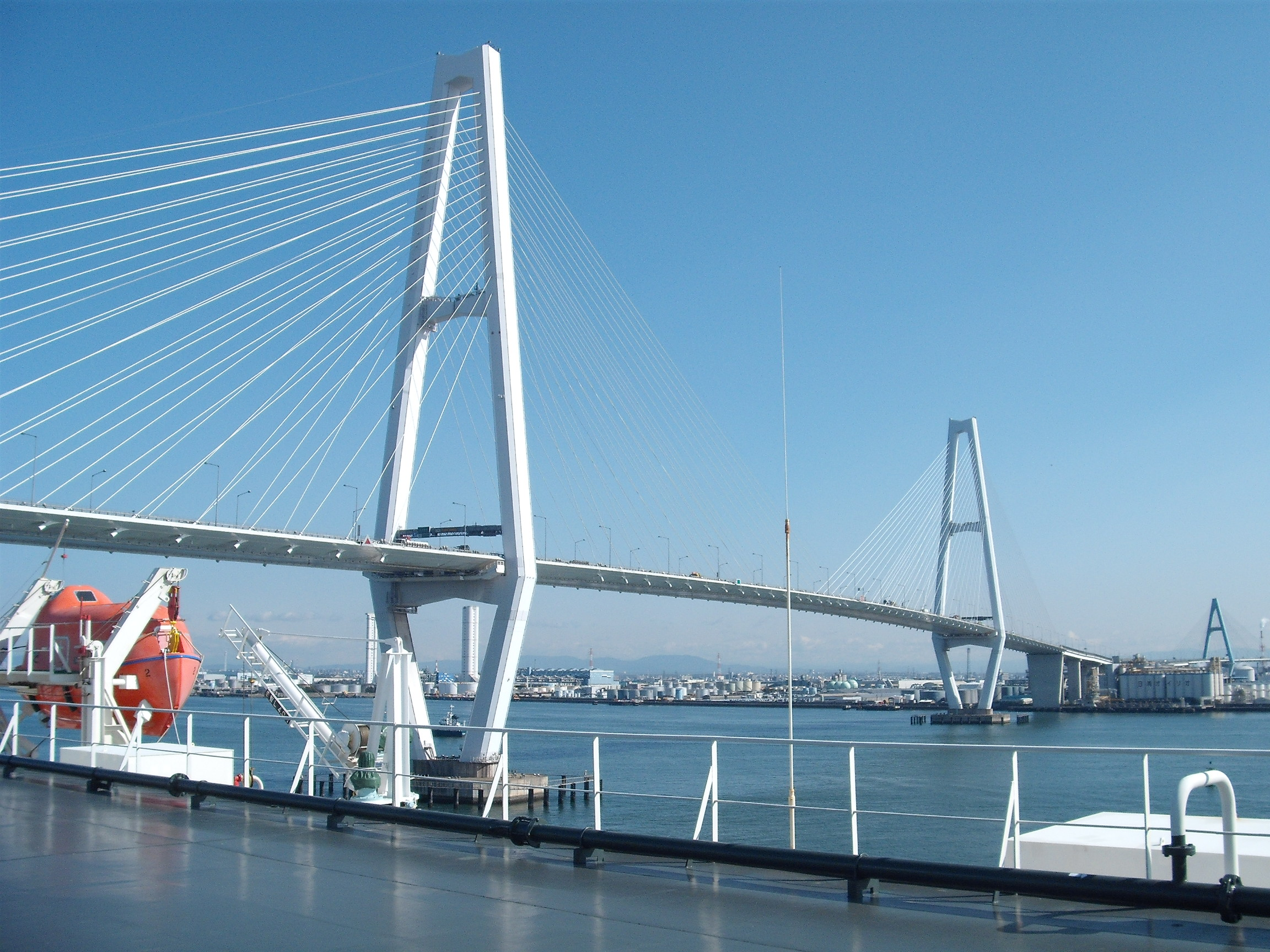 Meiko-Chuo Bridge in Nagoya